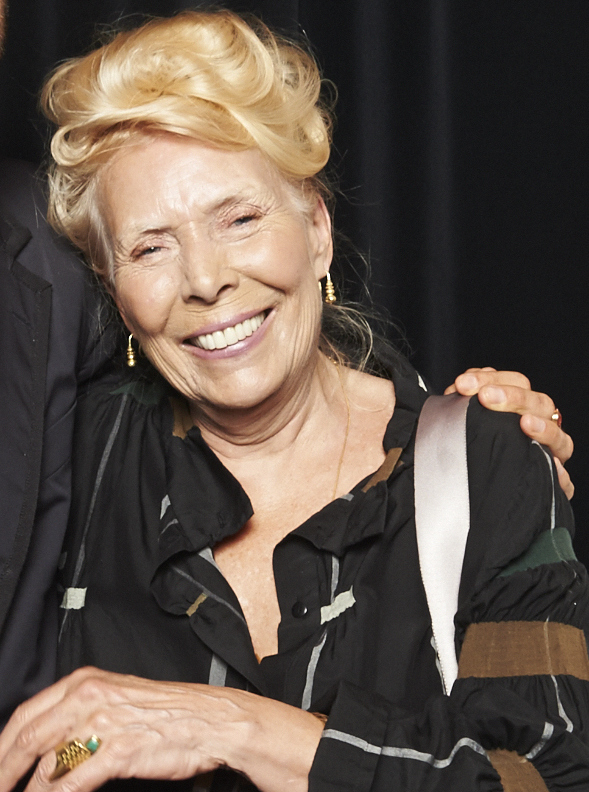 Photograph provided by Jörn Weisbrodt's assistant, Mark Rochford. Taken on 16 June 2013 at the Luminato Festival. SongsforLulu (talk) 09:14, 29 June 2014 (UTC)